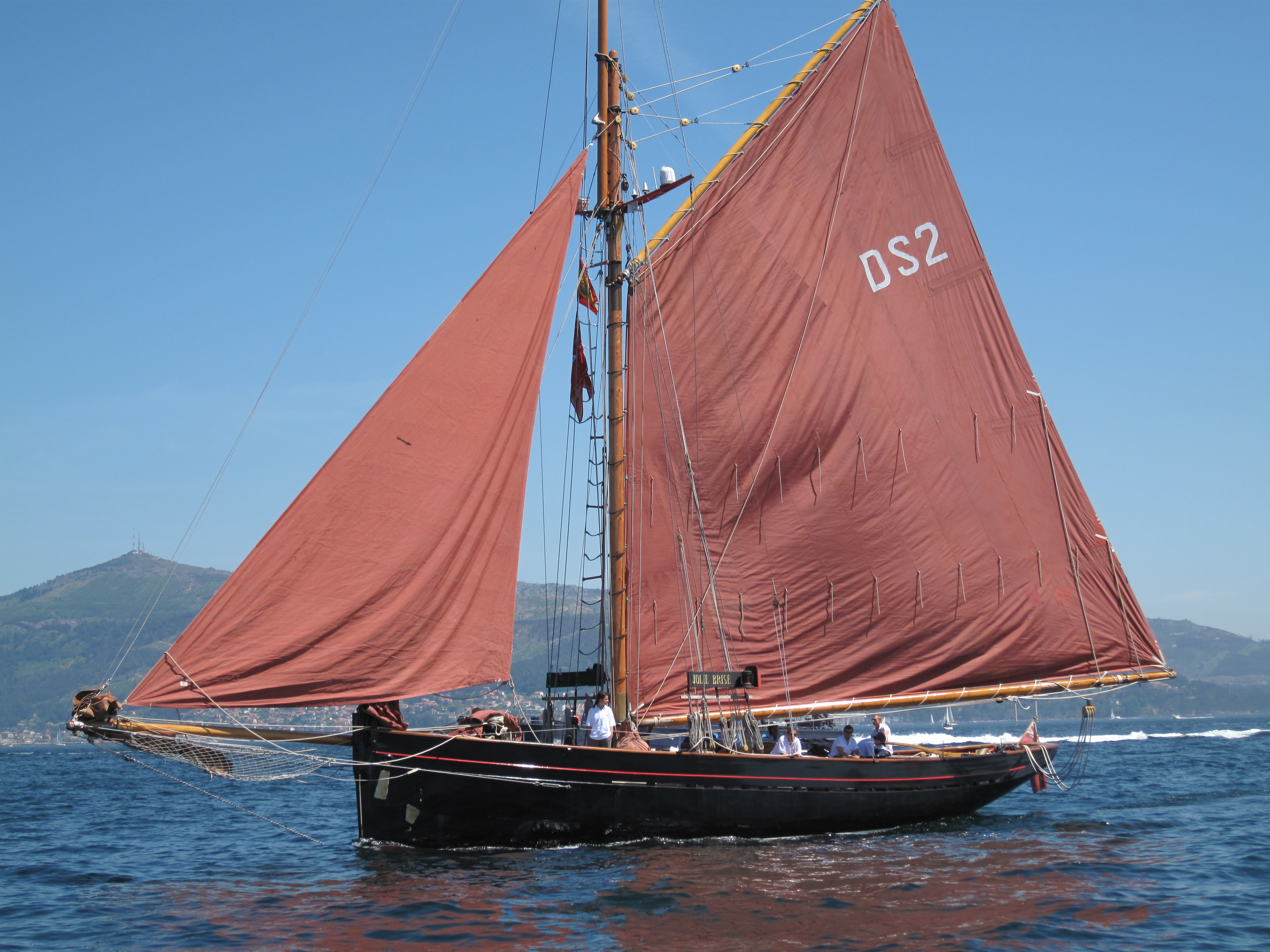 Tall Ships Atlantic Challenge, Jolie Brise, Vigo